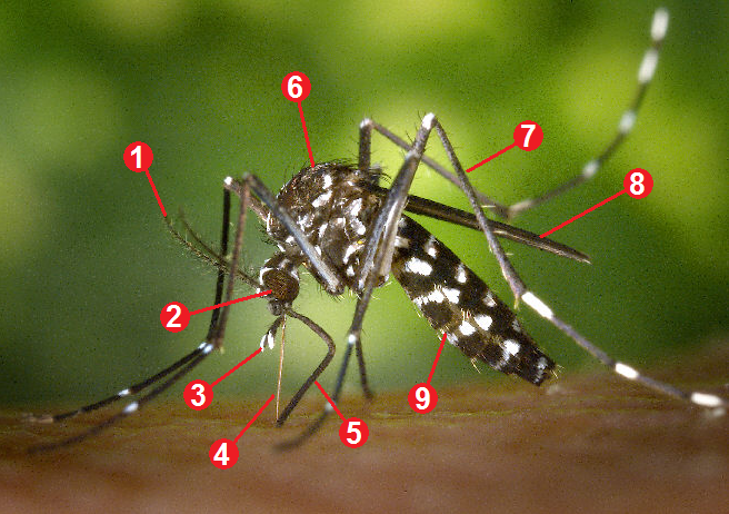 Description Asian tiger mosquito, Aedes albopicts, beginning its blood-meal This work is in the public domain in the United States because it is a work prepared by an officer or employee of the United States Government as part of that person’s official duties under the terms of Title 17, Chapter 1, Section 105 of the US Code. Note: This only applies to original works of the Federal Government and not to the work of any individual U.S. state, territory, commonwealth, county, municipality, or any other subdivision. This template also does not apply to postage stamp designs published by the United States Postal Service since 1978. (See § 313.6(C)(1) of Compendium of U.S. Copyright Office Practices). It also does not apply to certain US coins; see The US Mint Terms of Use. This file has been identified as being free of known restrictions under copyright law, including all related and neighboring rights. Asian tiger mosquito, Aedes albopicts, beginning its blood-meal